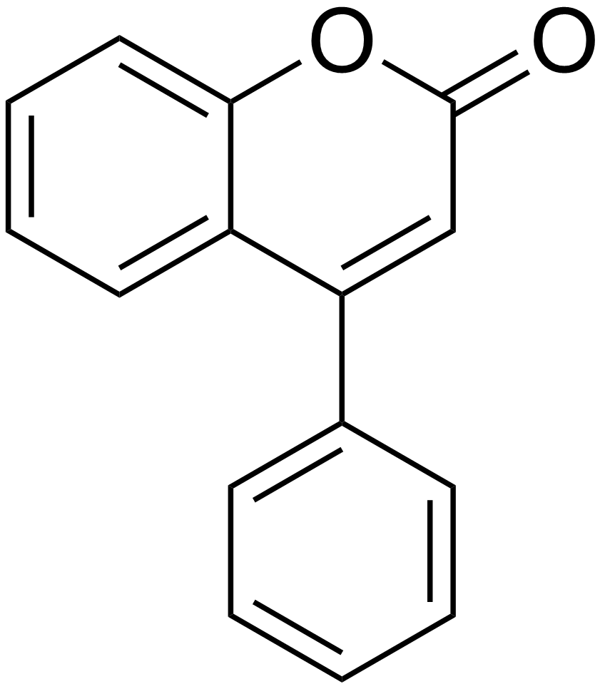 Structural formula of the neoflavonoid 4-phenylcoumarine (4-phenyl-1,2-benzopyrone)